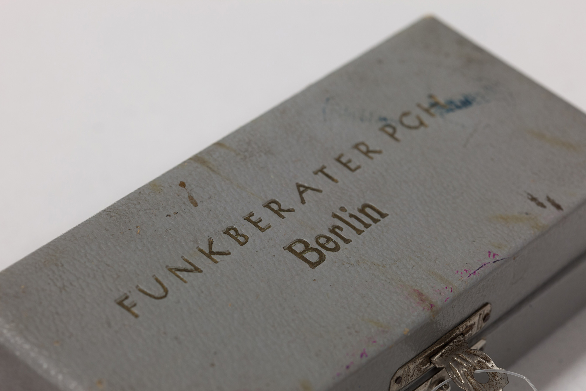 Microphone case by Funkberater PGH, product of East Germany, Berlin 1967. Museum für Kommunikation, Frankfurt, Germany. Photo by Maximilian Schönherr with help from Lioba Nägele.